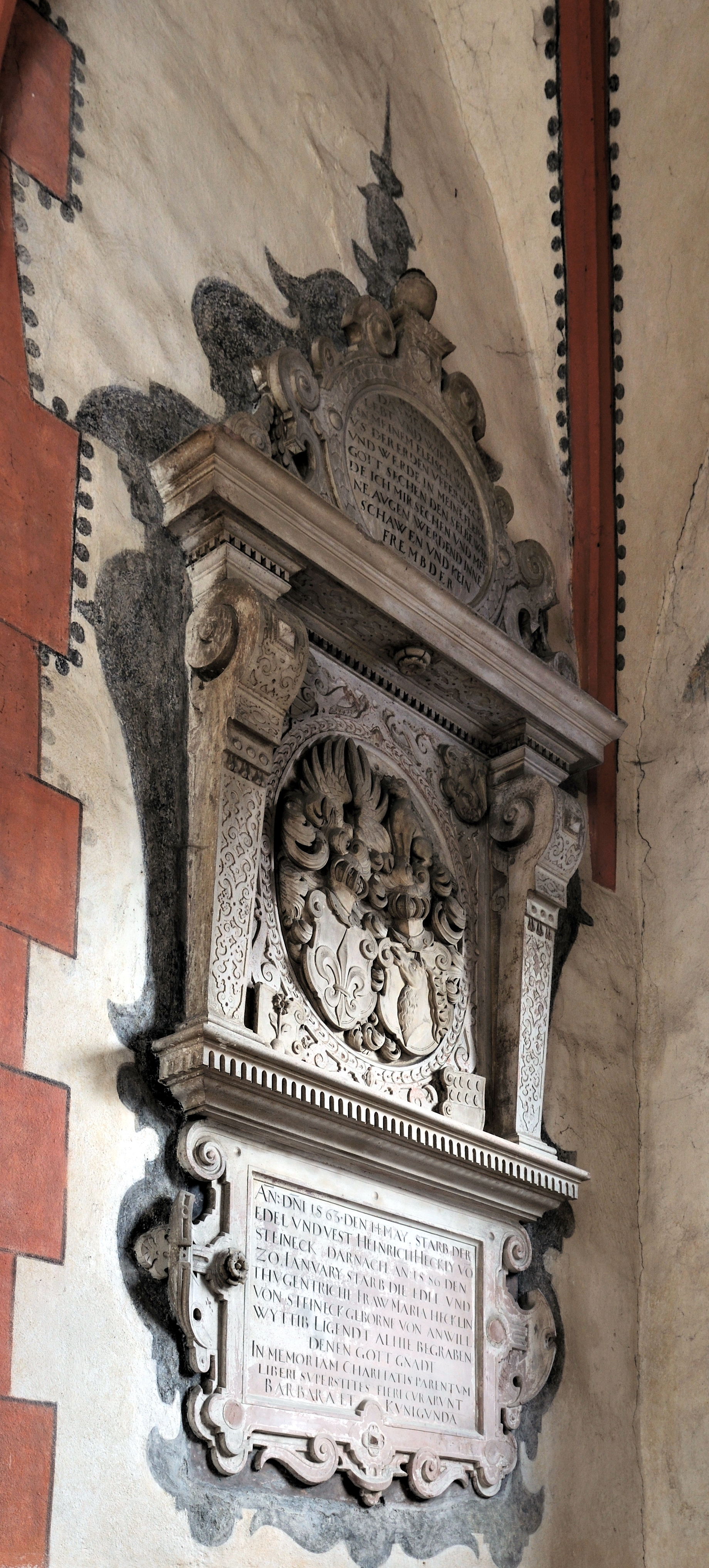 Schopfheim: Old City Church